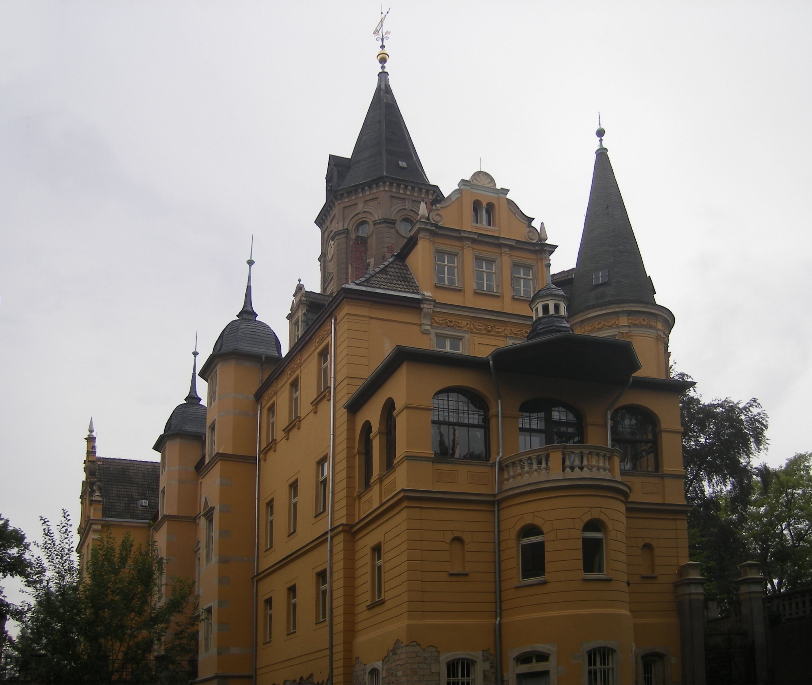 Castle in Altenburg/Ehrenberg in Thuringia